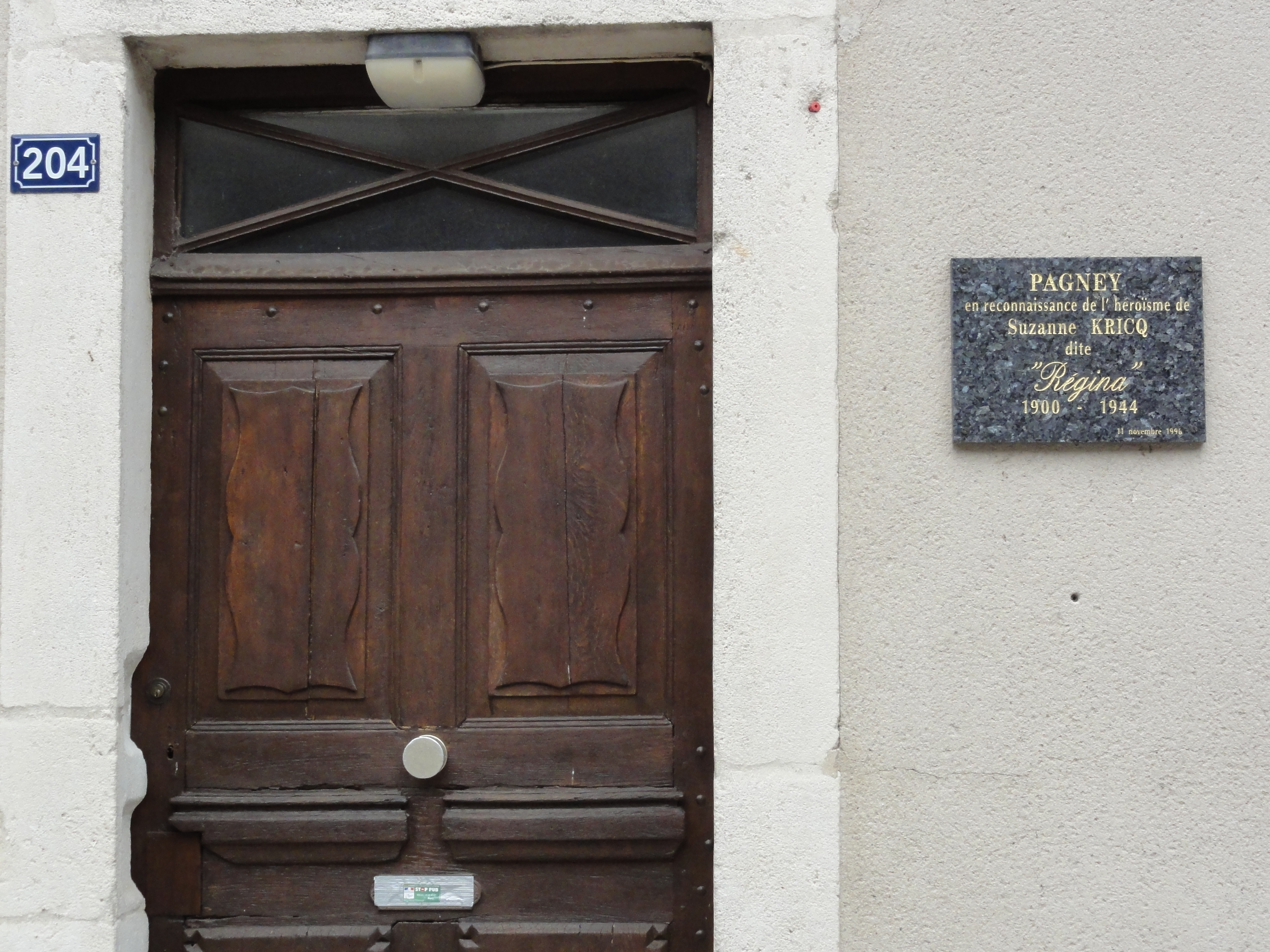 Pagney-derrière-Barine (Meurthe-et-M.) Maison Suzanne Kricq (1900-1944) plaque